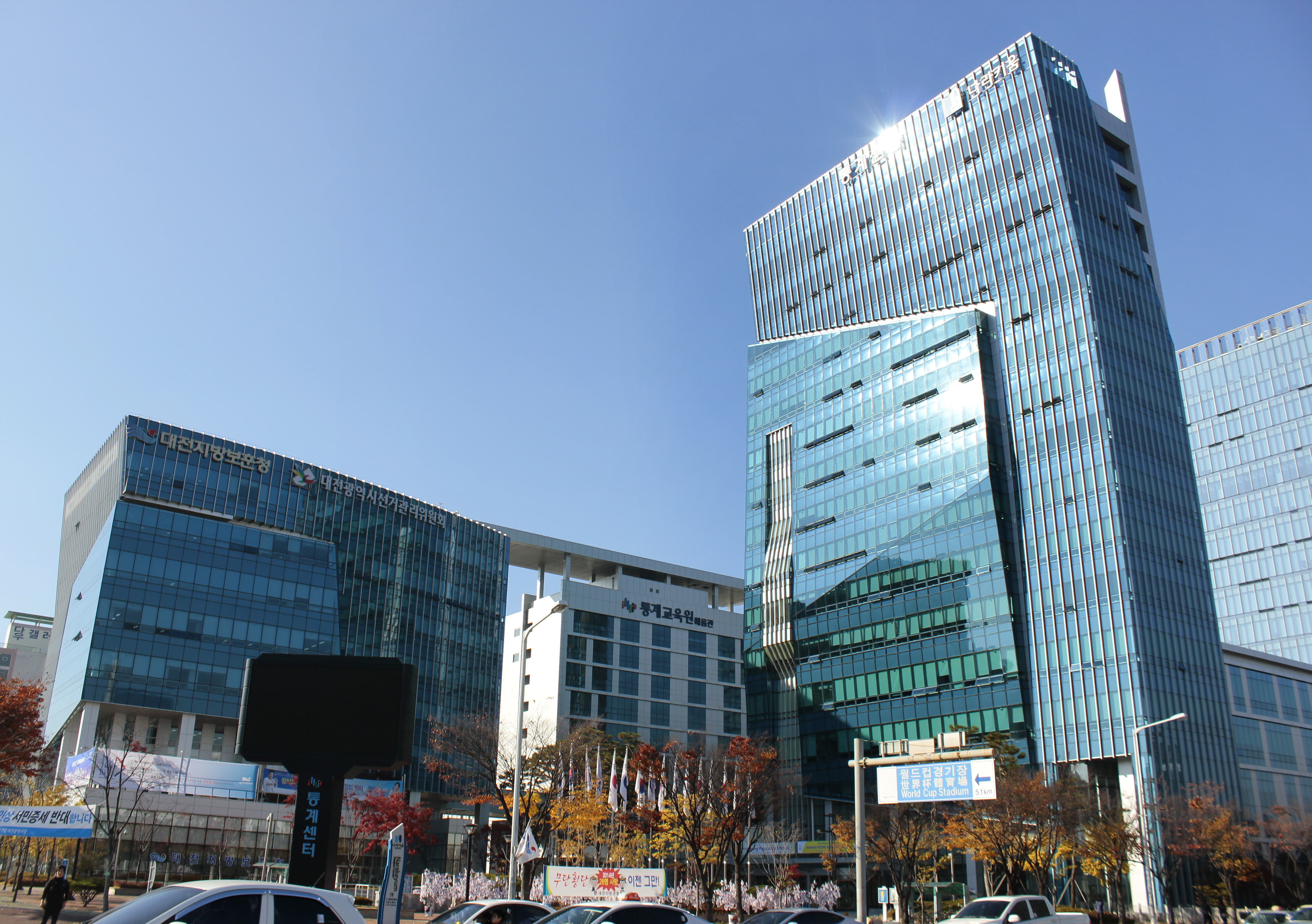 (right)Chungcheong Regional Statistics Office (left)Daejeon Ministry of Patriots and Veterans Affairs&Daejeon Election Commission